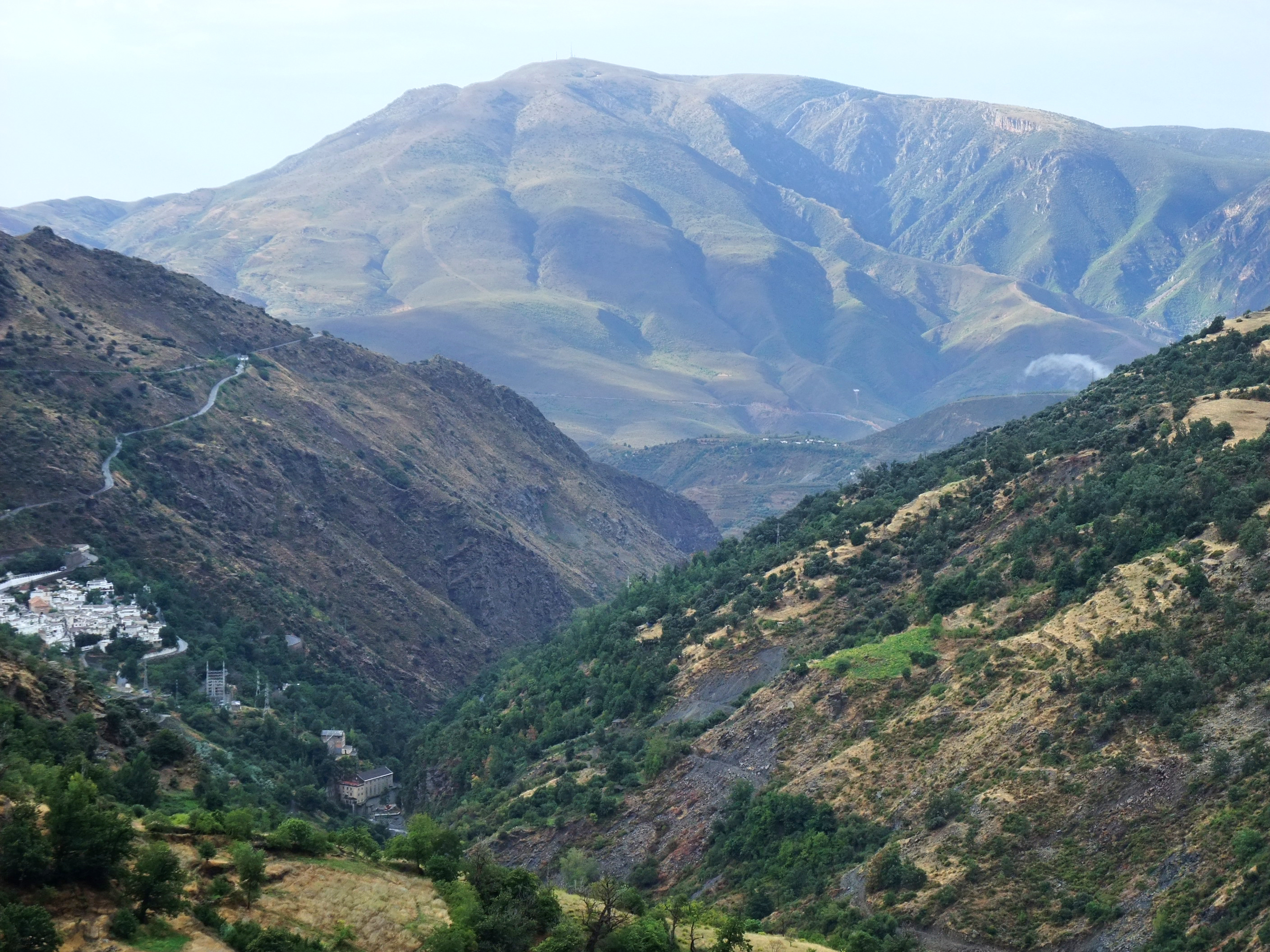 View to the Mount Veleta north of Capileira, Sierra Nevada in Spain